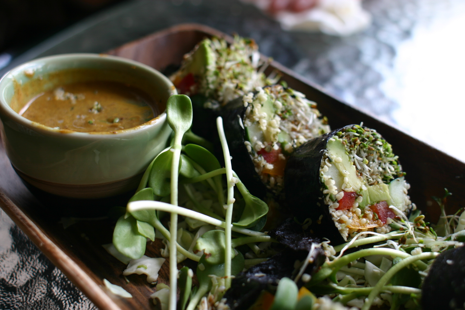 Raw vegan lunch. Spicy seaweed wraps with peanut sauce